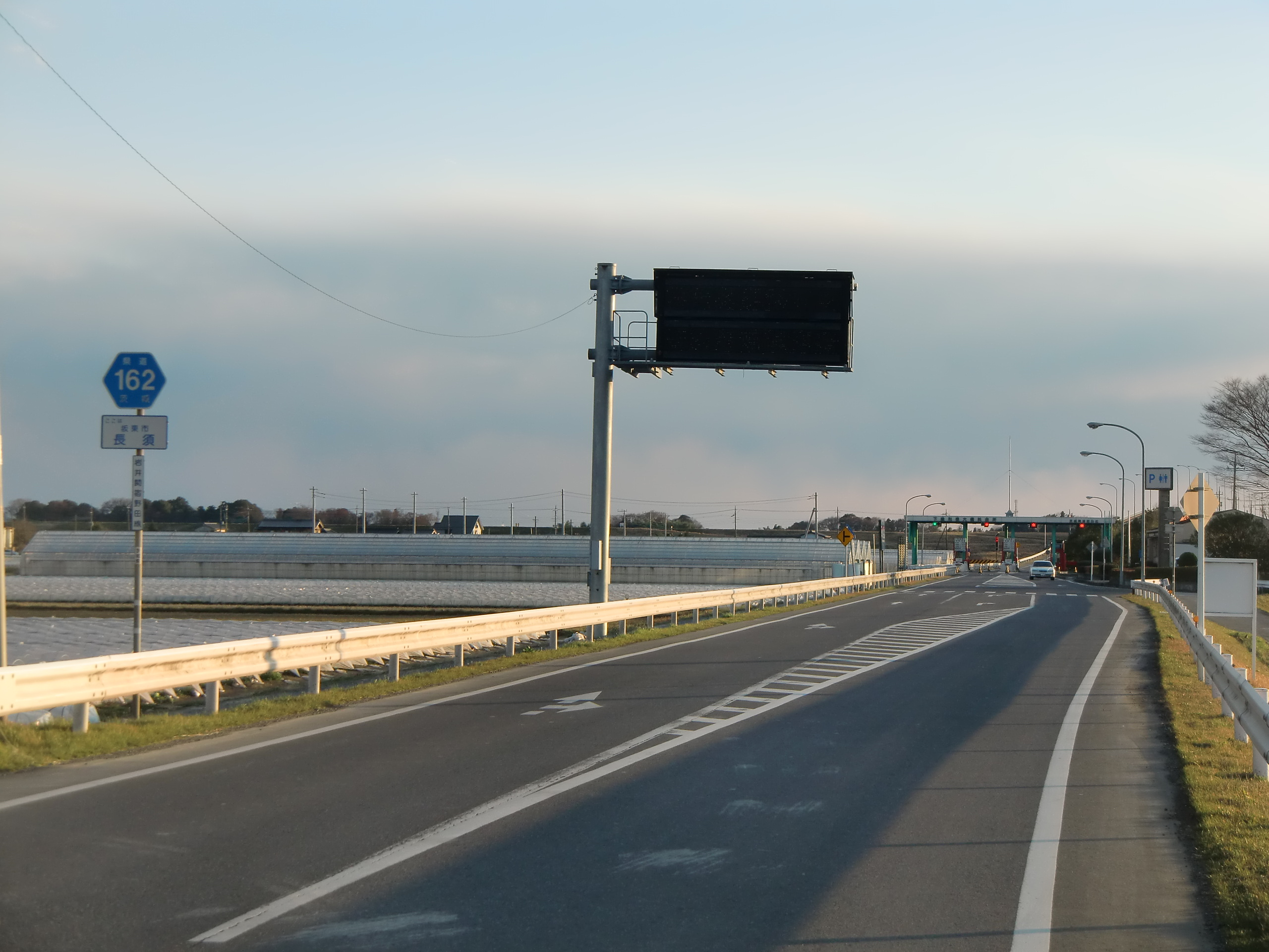 Shimousa-Tone bridge toll gate / Ibaraki prefectural road 162 Iwai-Sekiyado-Noda line in Nagasu, Bando-city, Ibaraki, JAPAN.